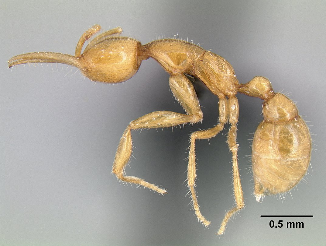 Martialis heureka Specimen Code: CASENT0106181 Locality: Brazil: Amazonas: Embrapa, km 28, hwy AM010, 30km Manaus; 02°53'00"S 059°59'00"W 40-50 m Collection Information: Collection codes: CR030509-01 Collected by: C. Rabeling Habitat: primary lowland rainforest Date Collected: 9 May 2003 Method: ex leaf litter at dusk Specimen Information: Life Stage: 1w Located at: ATOL voucher MZSP Owned by: MZSP Type Status: holotype